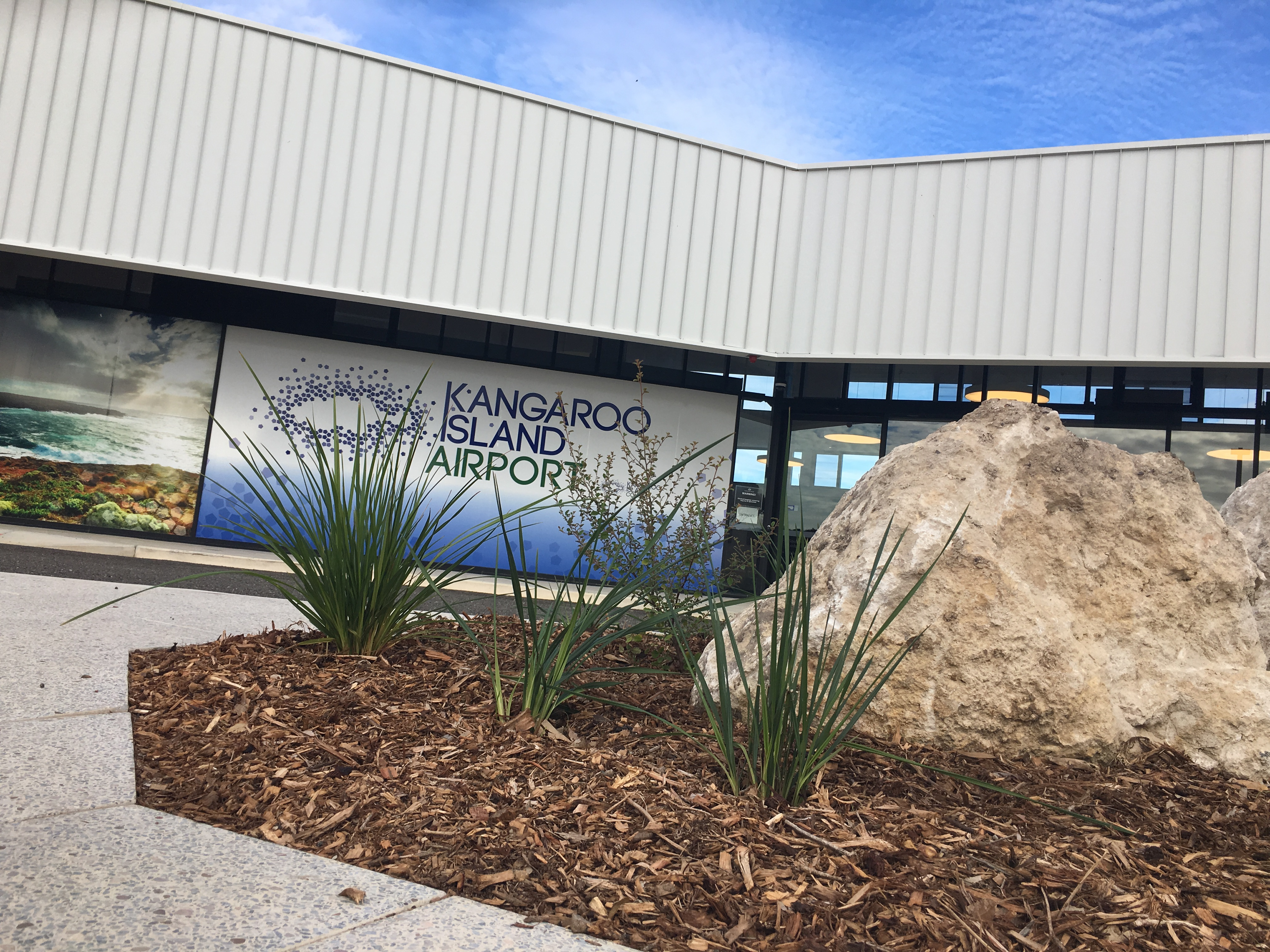 The new terminal building at Kangaroo Island Airport, opened by the Prime Minister and the Premier of South Australia on 4 July 2018, is surrounded by landscaping in Kangaroo Island Natives.